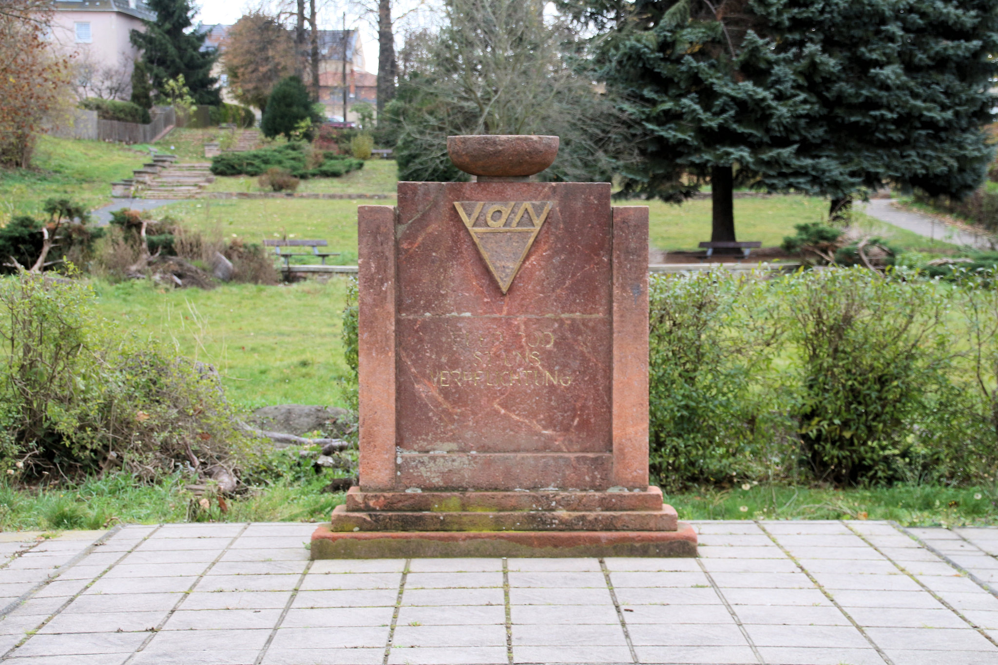 Monument to the persecuted of the Nazi regime in Frankenberg/Saxony with the inscription "Your death is our commitment"